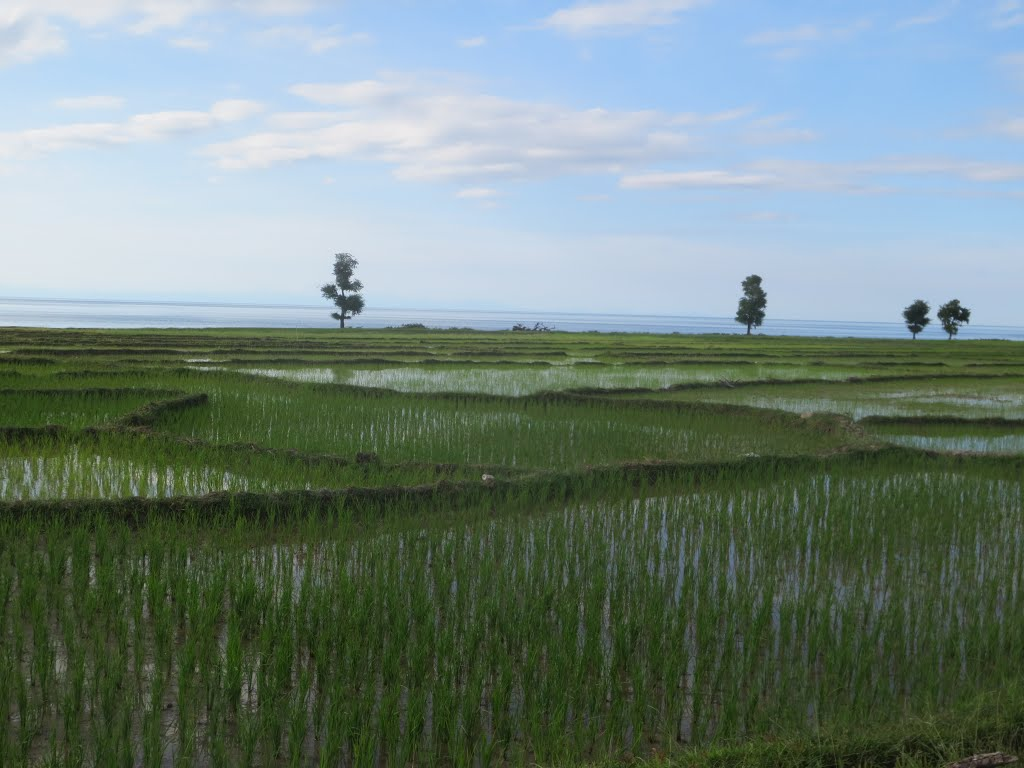 Ricefields past Seical